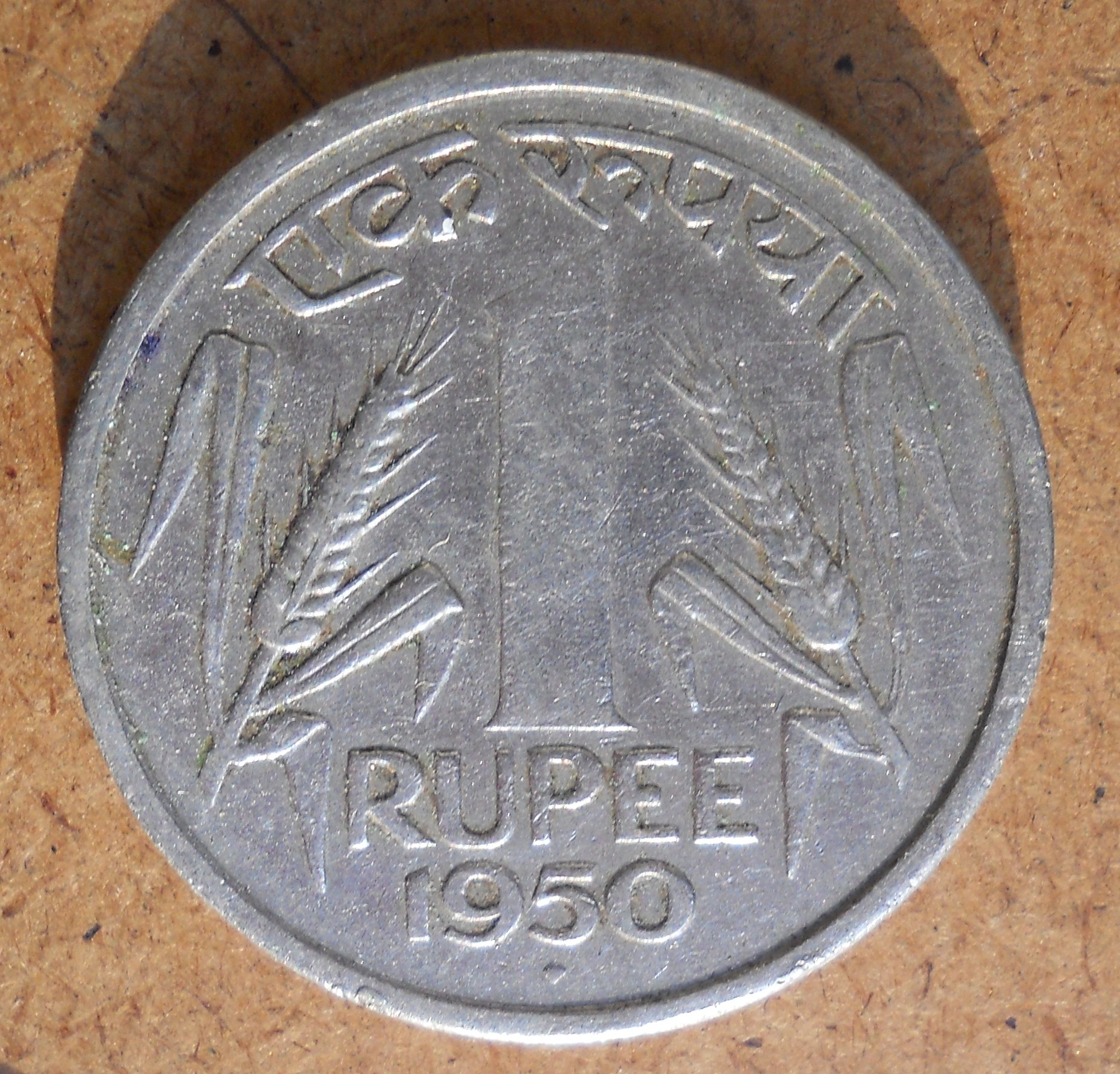 Indian one Rupee coin 1950